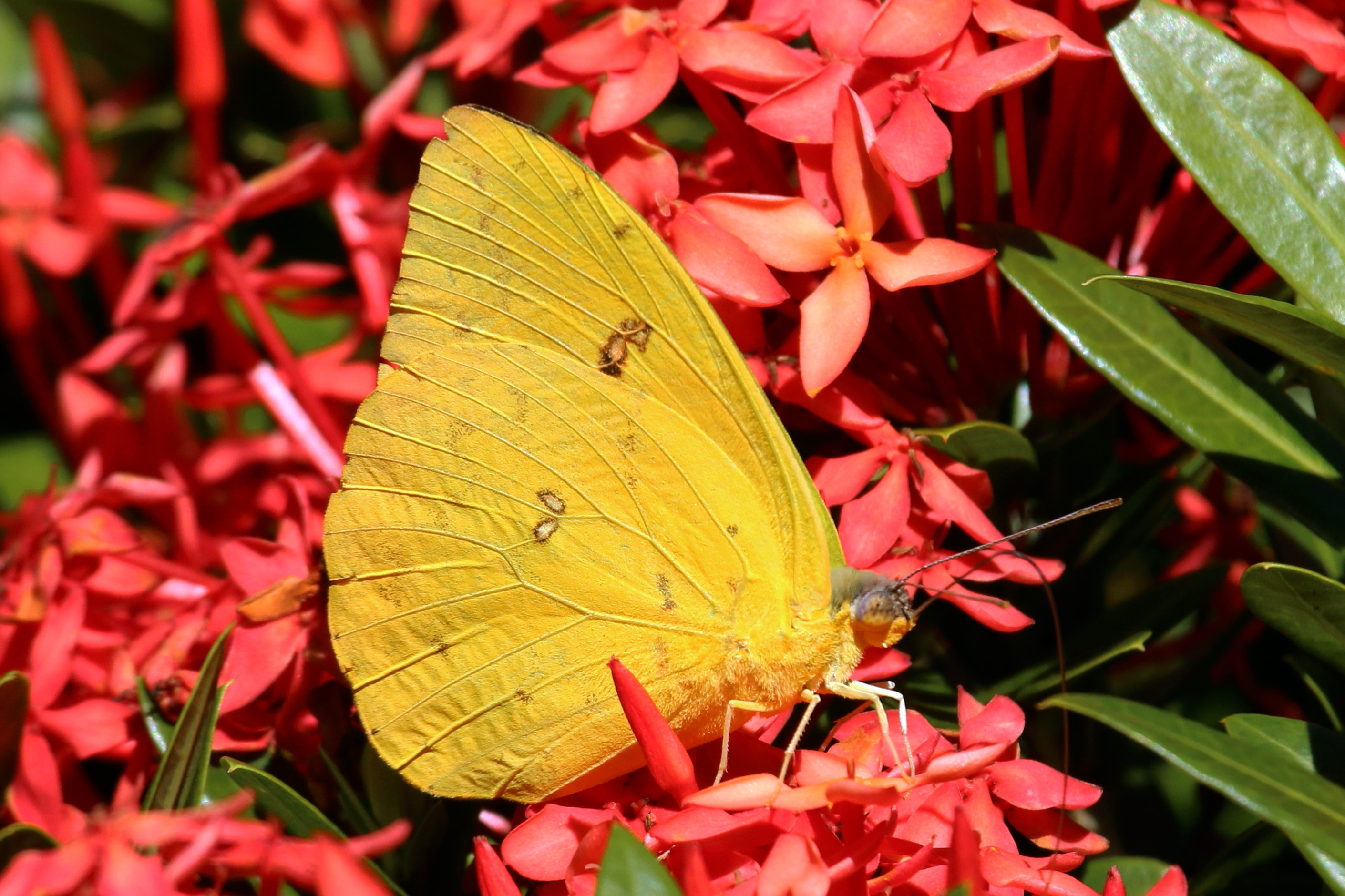 Cloudless sulphur (Phoebis sennae sennae) male, Tobago